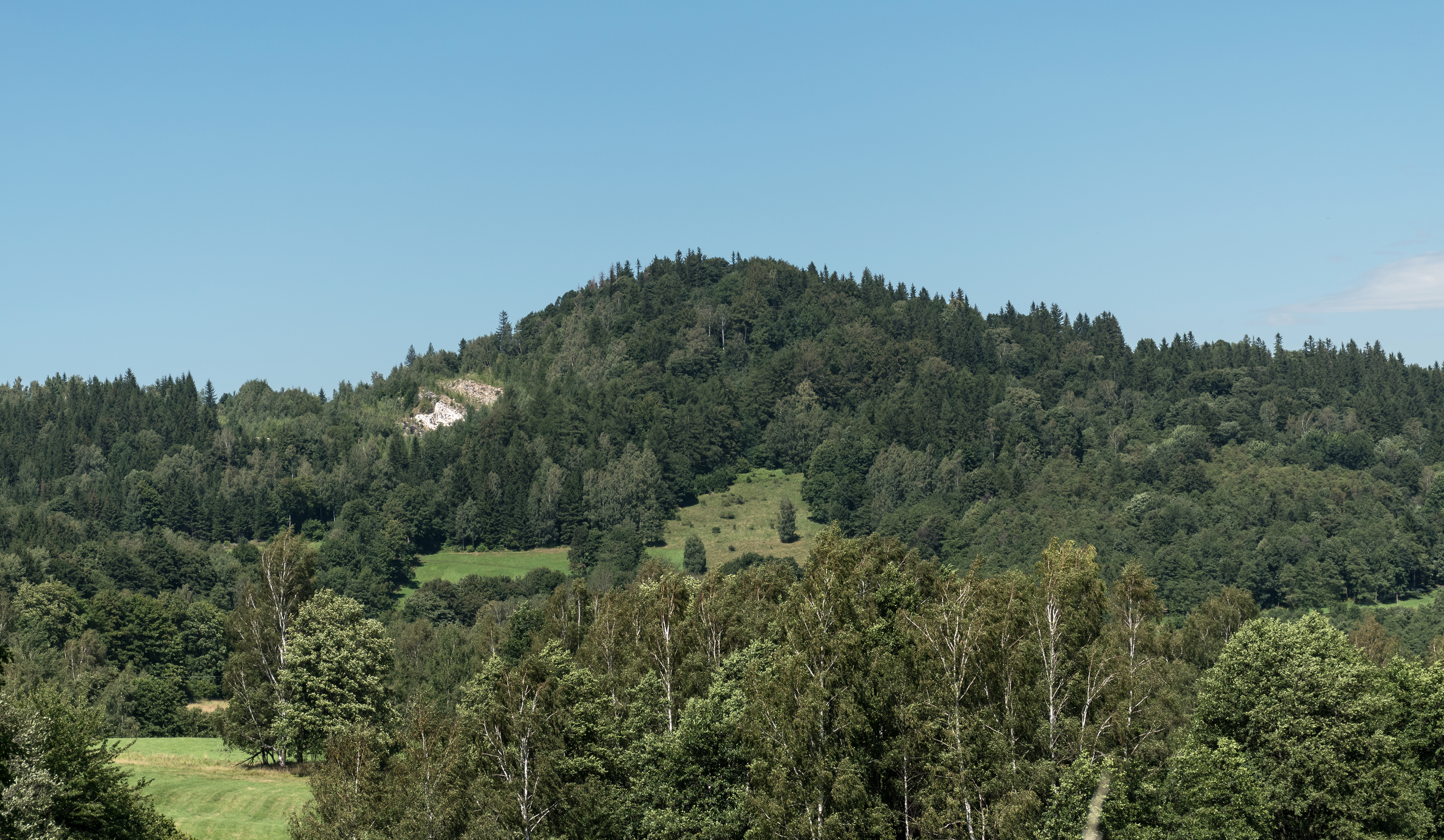 Krzyżnik, Bialskie Mountains, Sudes